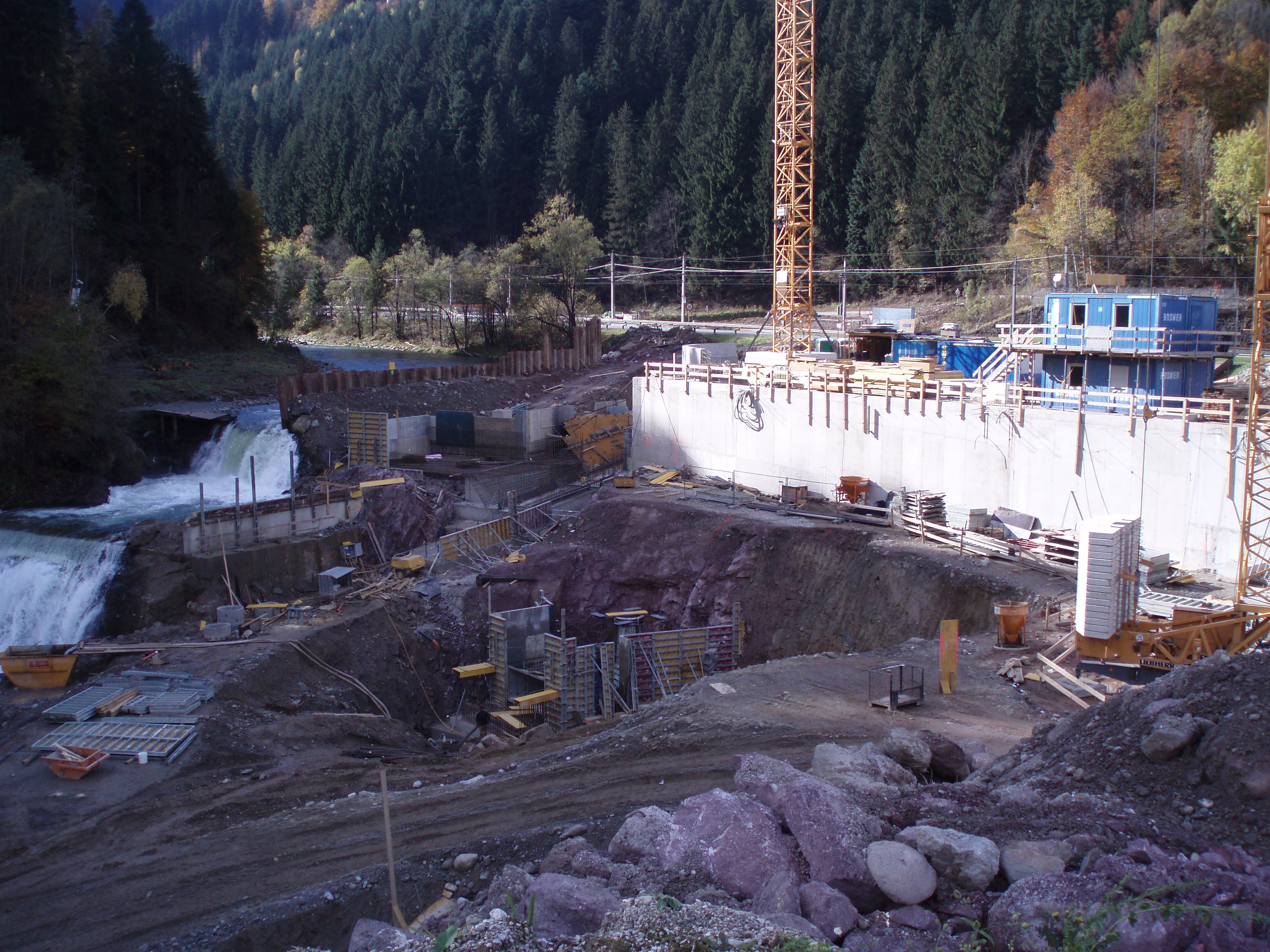 The site of the new hydropowerstation near Bruckhäusl, Wörgl, Tyrol (Austria).